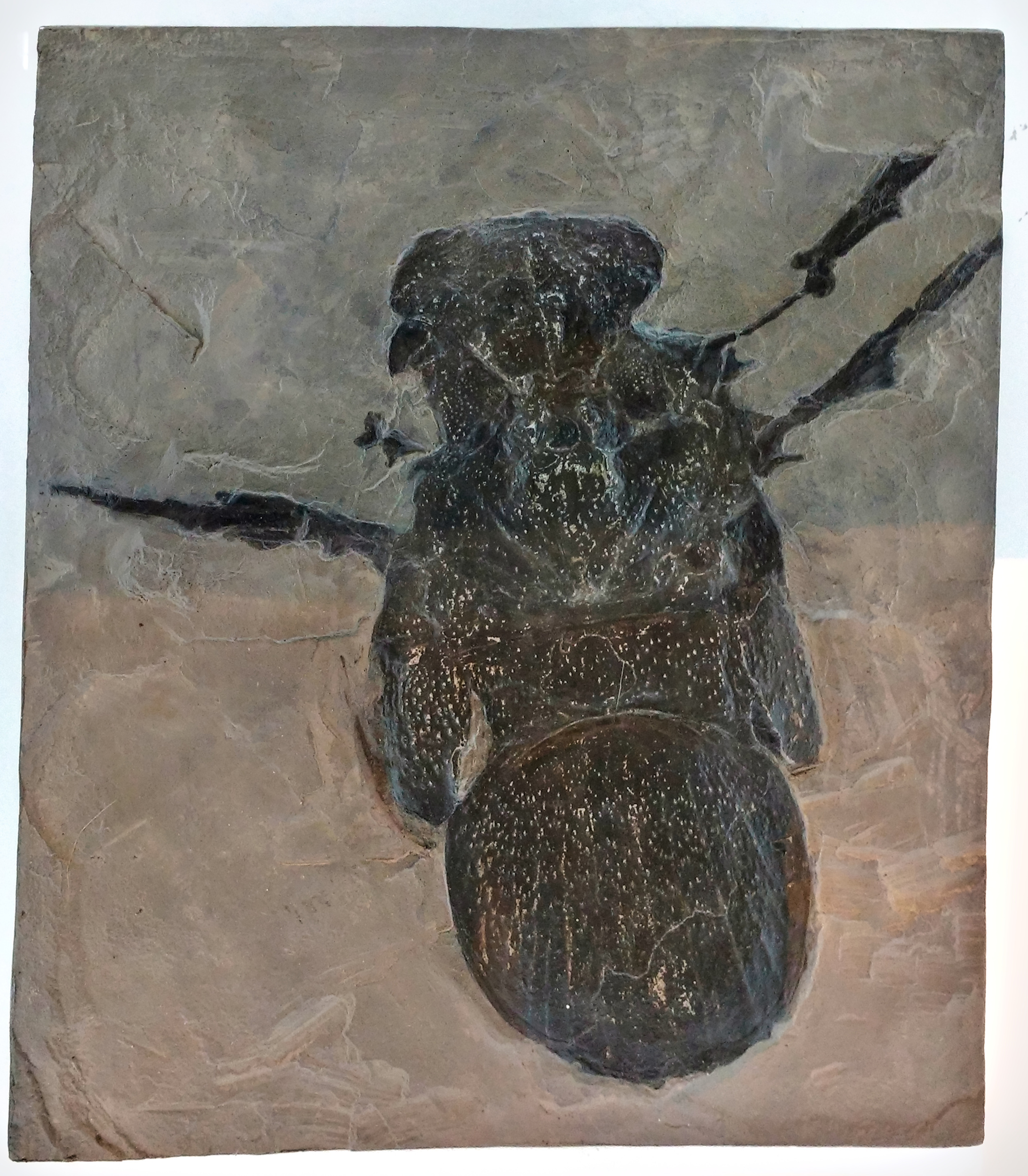 Cast of the Megarachne servinei holotype specimen from the Australian Museum collection on display at the Royal Ontario Museum. The holotype itself is kept at the Museum of Paleontology of the University of Córdoba, in Córdoba (Argentina).